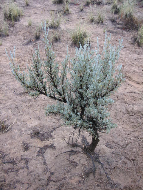 a photo taken by me of a sagebrush plant in San Juan County, New Mexico, United States